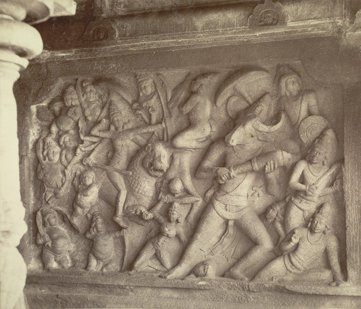 Photograph taken by Nicholas and Co in ca. 1880 at Mahabalipuram (Mamallapuram) in Tamil Nadu, showing a sculptural frieze of Durga seated on a lion, shooting arrows at Mahishasura. Most of the temples and art at this site are ascribed to the reign of the Pallava king Narasimhavarman I (ruled 630-about 668 AD), from whose title of Great Wrestler or Mahamalla the place derives its name. The Mahishasuramardini cave temple takes its name from the huge sculpture panel on its walls celebrating the feat of the goddess Durga (a form of the Mother Goddess Shakti) who slew the buffalo-headed demon Mahishasura. With its naturalistic dynamism and beauty the panel is considered to be a masterpiece of Indian art.